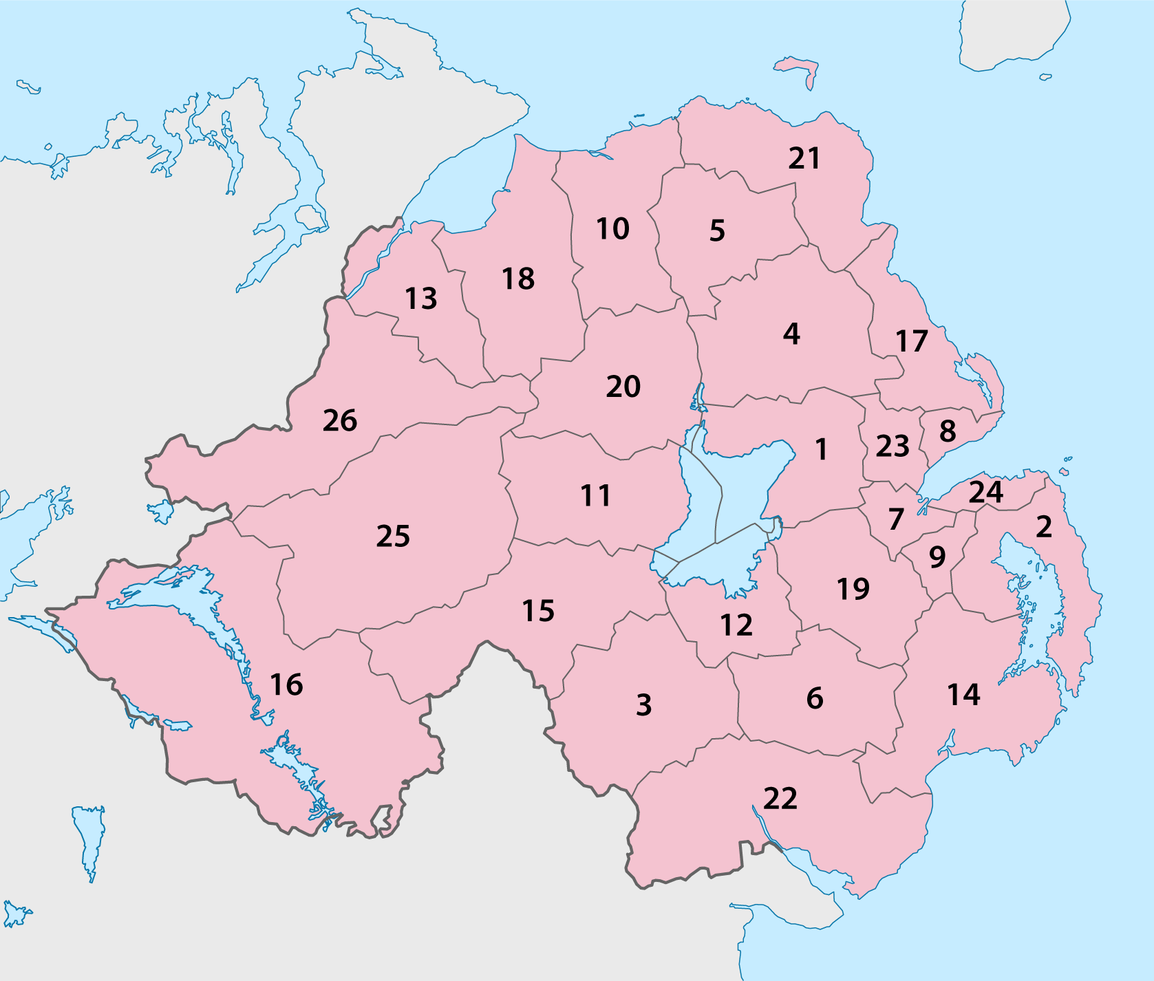 Local Government Districts of Northern Ireland Antrim Ards Armagh (City) Ballymena Ballymoney Banbridge Belfast (City) Carrickfergus Castlereagh Coleraine Cookstown Craigavon Derry (City) Down Dungannon and South Tyrone Fermanagh Larne Limavady Lisburn (City) Magherafelt Moyle Newry and Mourne Newtownabbey North Down Omagh Strabane